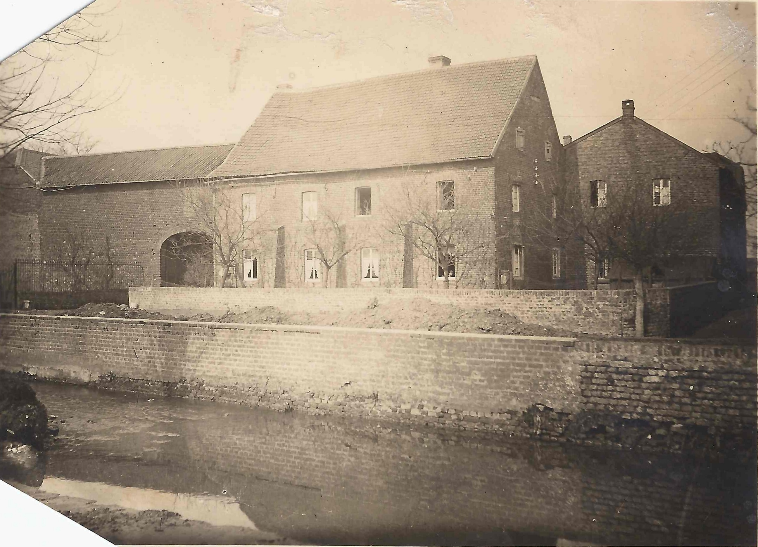 Jülich-Lorsbeck, Gut Lorsbeck, 1929. Vierseithof mit Herrenhaus, daran die Ankerinschrift 1696, Torbau und anderen Gebäuden, im Vordergrund der Mühlenteich. Die Gebäude wurden im Zweiten Weltkrieg zerstört.